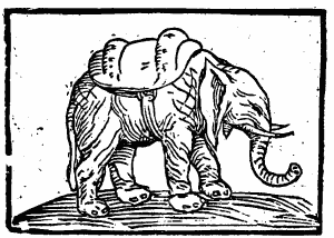 Woodcut of the elephant Hanno, on pamphlet Natura, Intellecto & Costumi de lo Elephante ... by Philomathes (Rome, c. 1514)